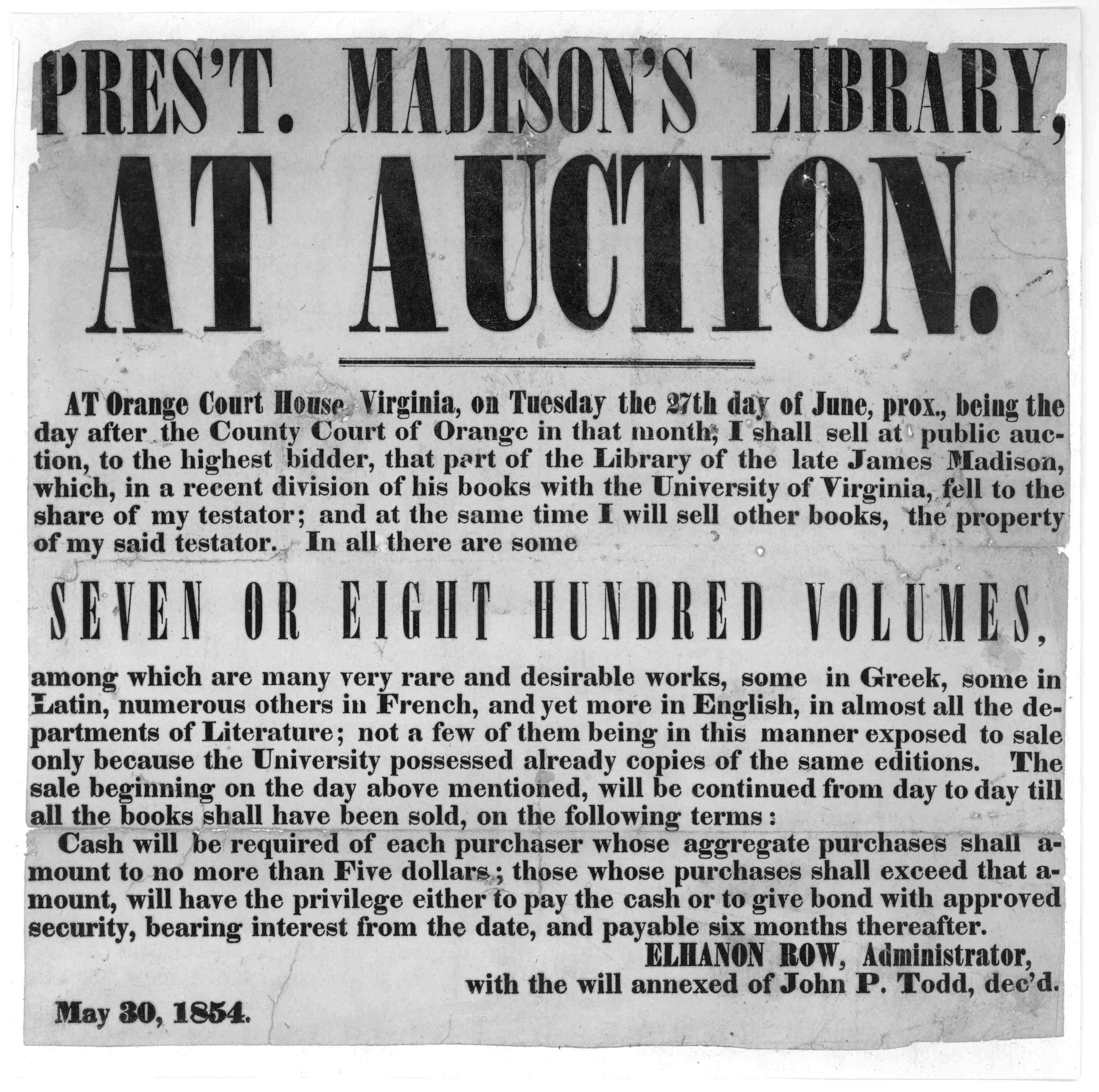 Broadside advertising sale of the library of President James Madison at Orange Court House, Orange, Orange County, Virginia, May 30, 1854. Library of Congress, Washington, D. C. [1]